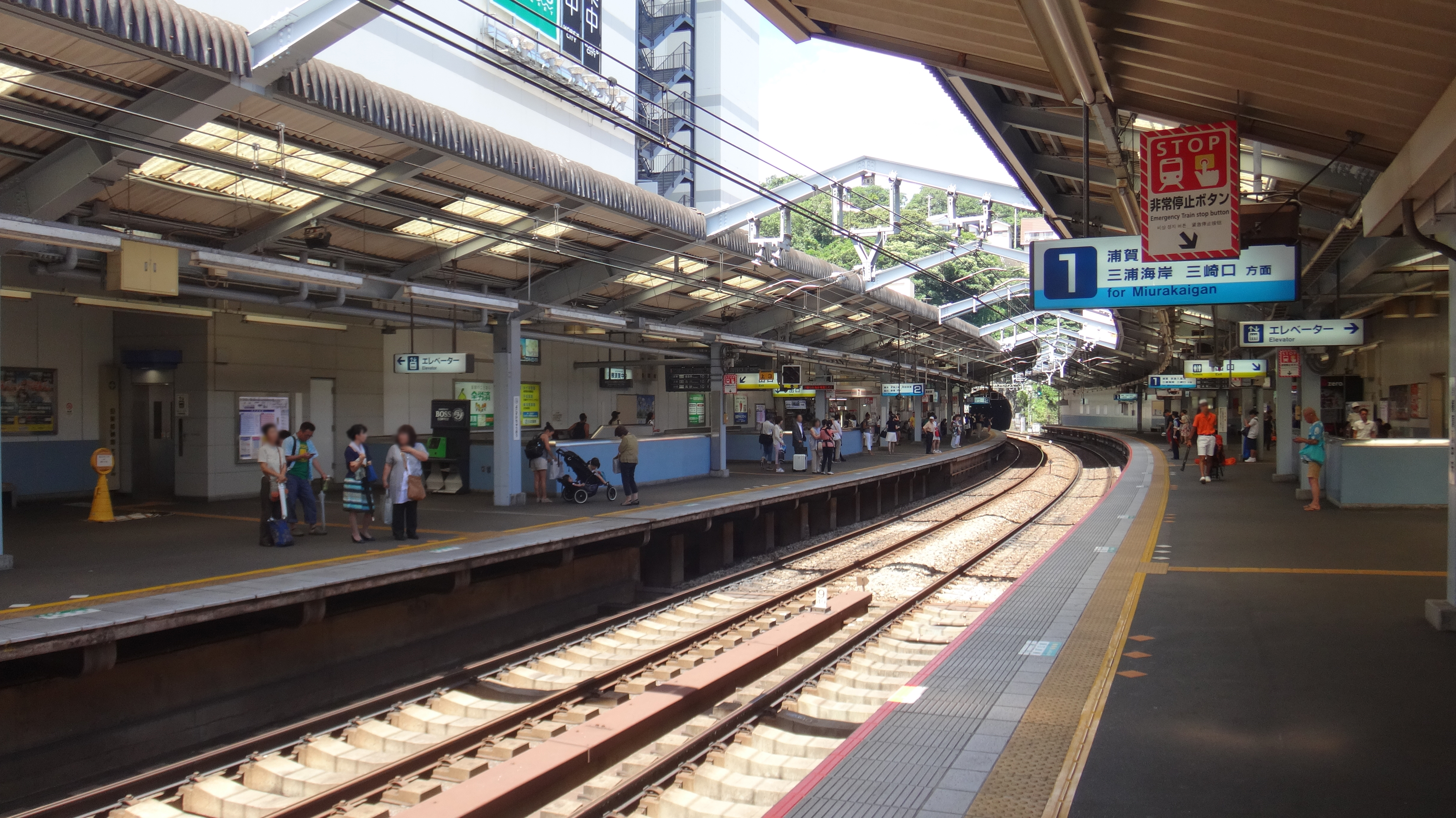 The platforms at Yokosuka-chuo Station on the Keikyu Main Line in Kanagawa Prefecture, Japan